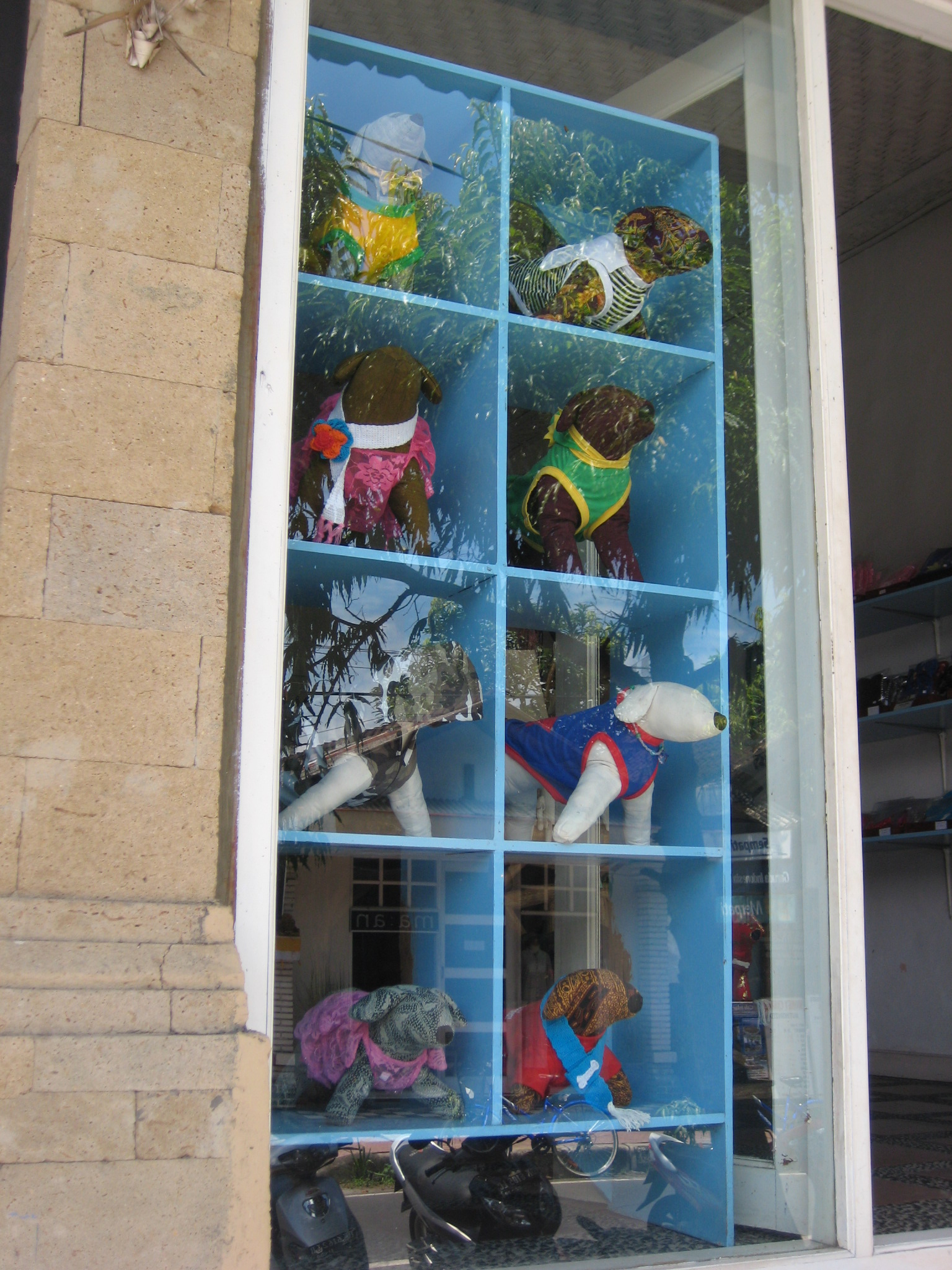 All different kinds of dogsclothing in a display window in Ubud, Bali